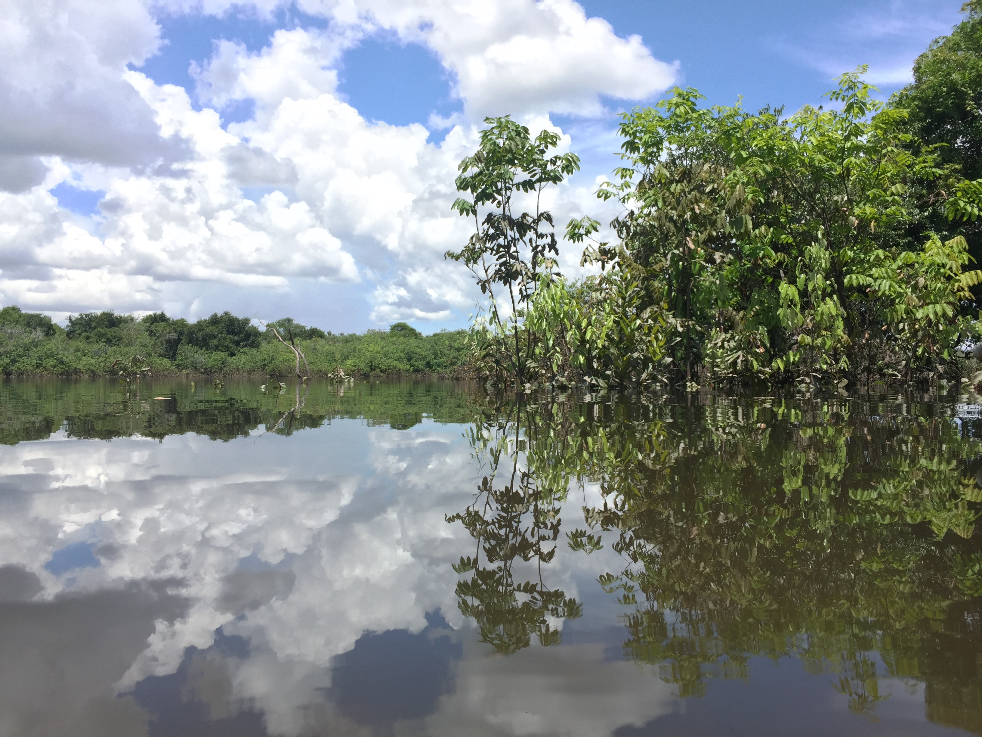 Cinaruco river at mid-day during the early beginning of the dry season.